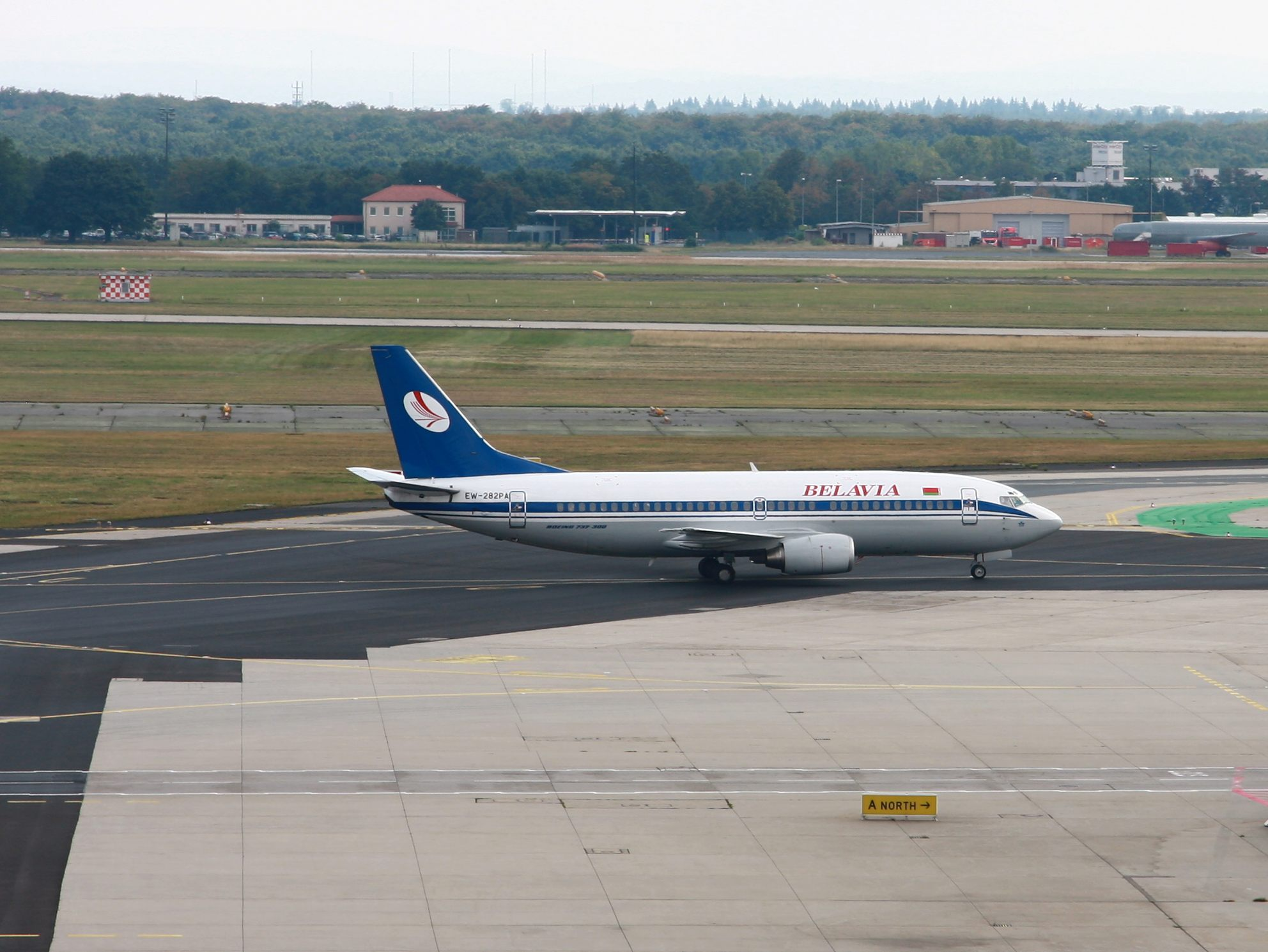 Boeing 737-300 of Belavia